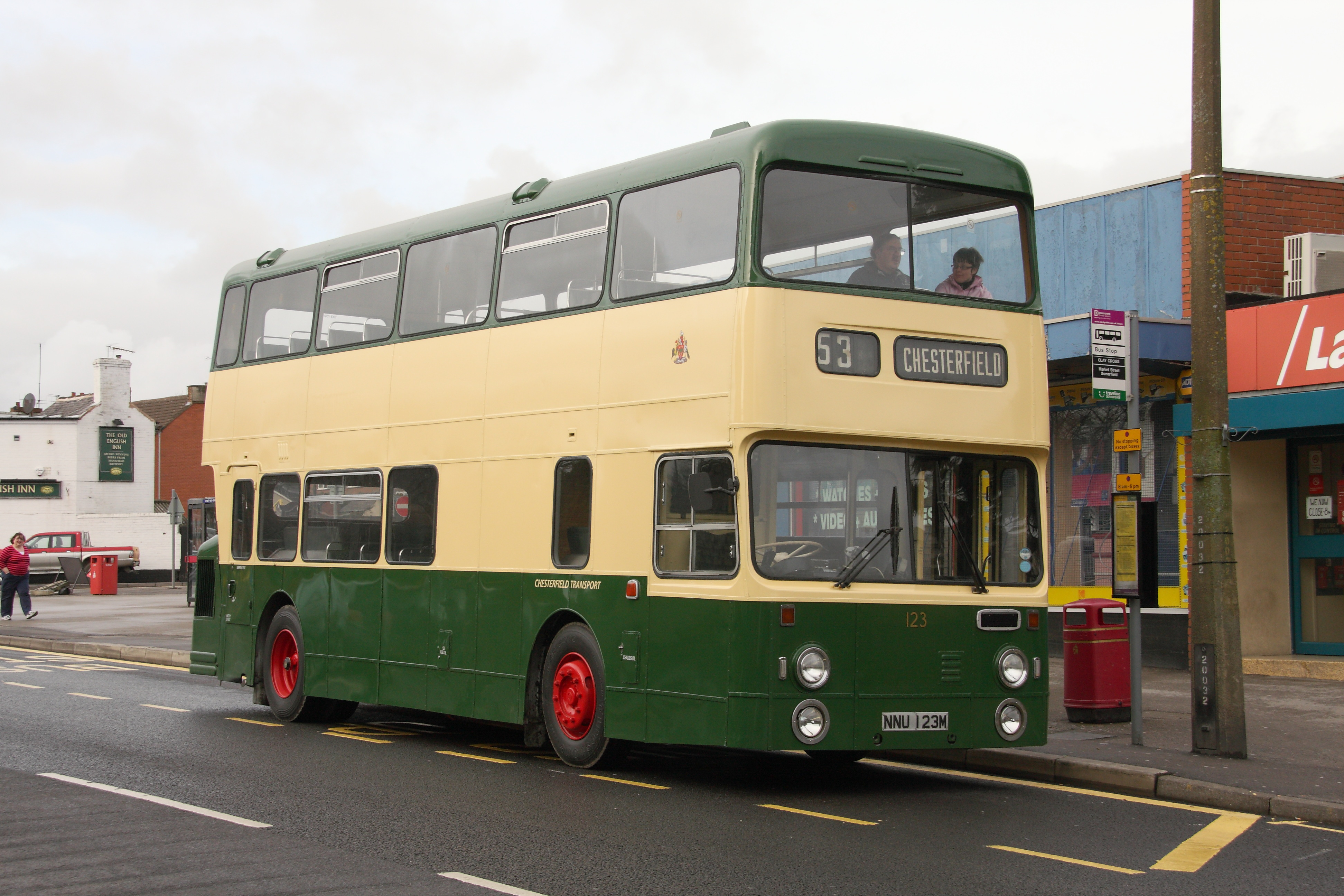 This Chesterfield Corporation Daimler is preserved at The Midland Railway Centre. The immaculate bus is seen at Claycross Centre (DVLA) Daimler 10450cc Heavy Oil first registered 22 August 1973